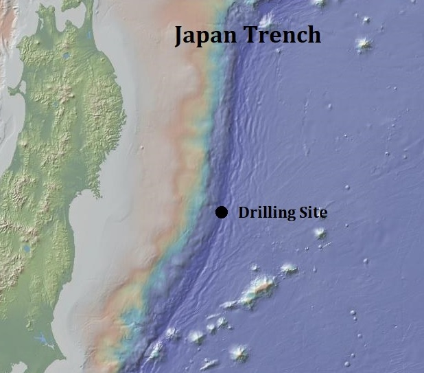 Map of JAMSTEC's drilling site along the Japan Trench. Map was created using GeoMapApp. Site was locating using information of JAMSTEC's website.